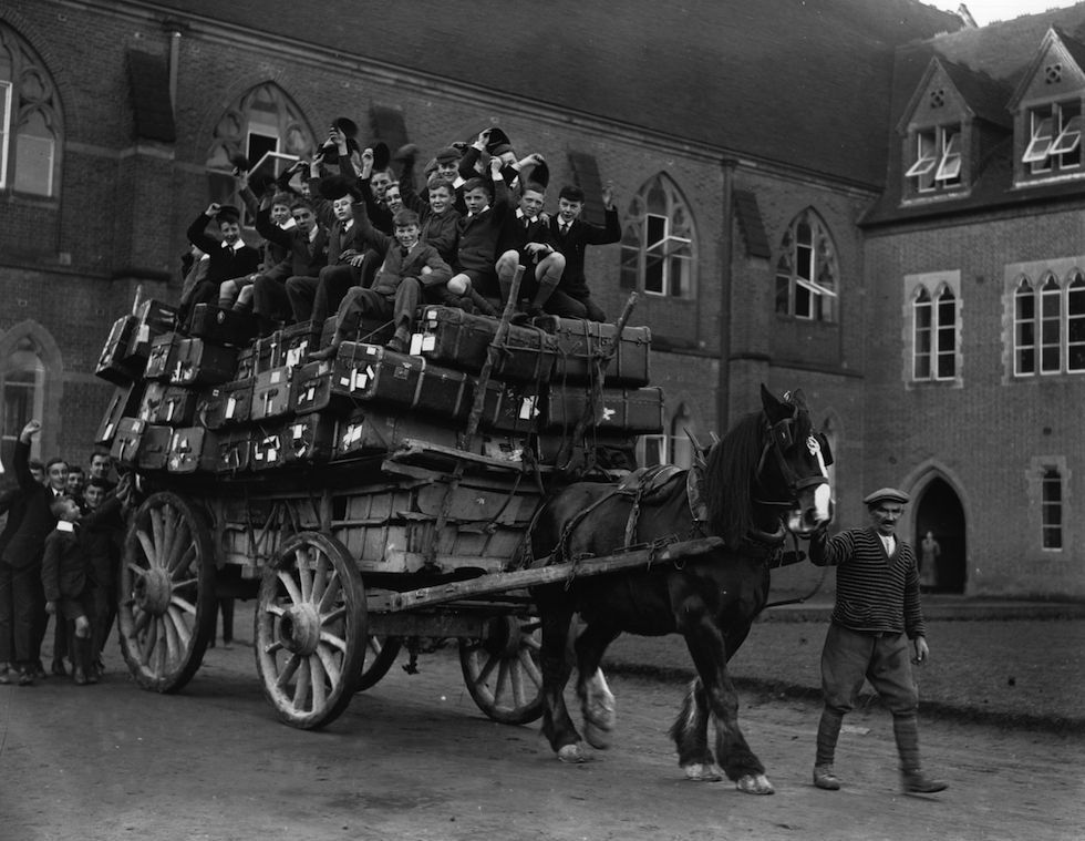 Boys at Ardingly College about to depart for their christmas holidays.